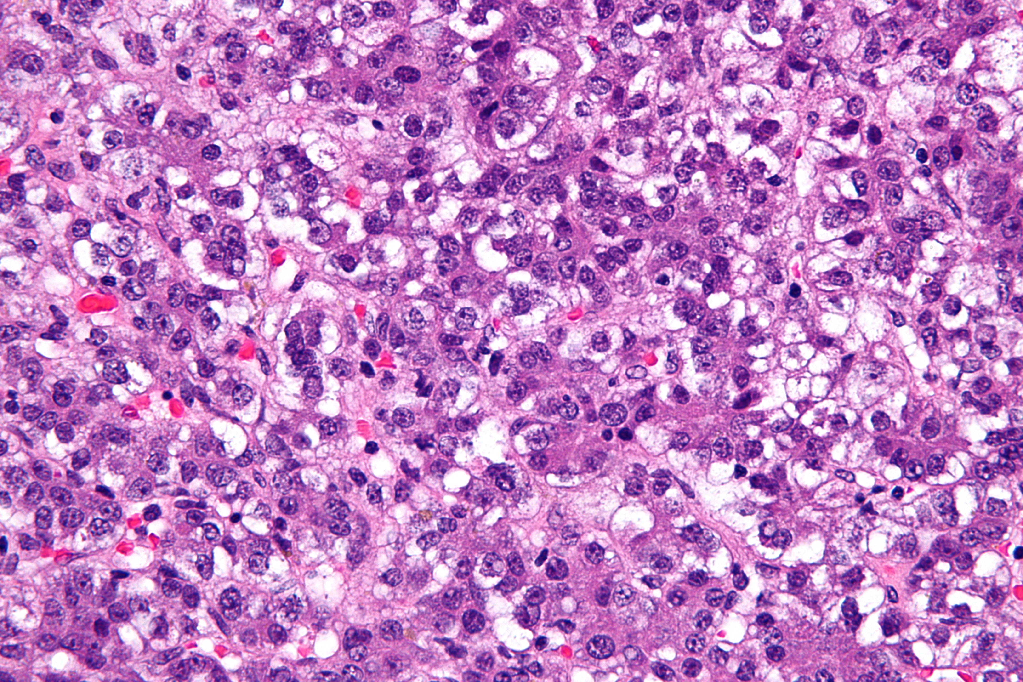 Very high magnification micrograph of a hepatoblastoma, a type of liver cancer found in infants and young children. H&E stain. Related images Low mag. High mag. High mag. Very high mag.